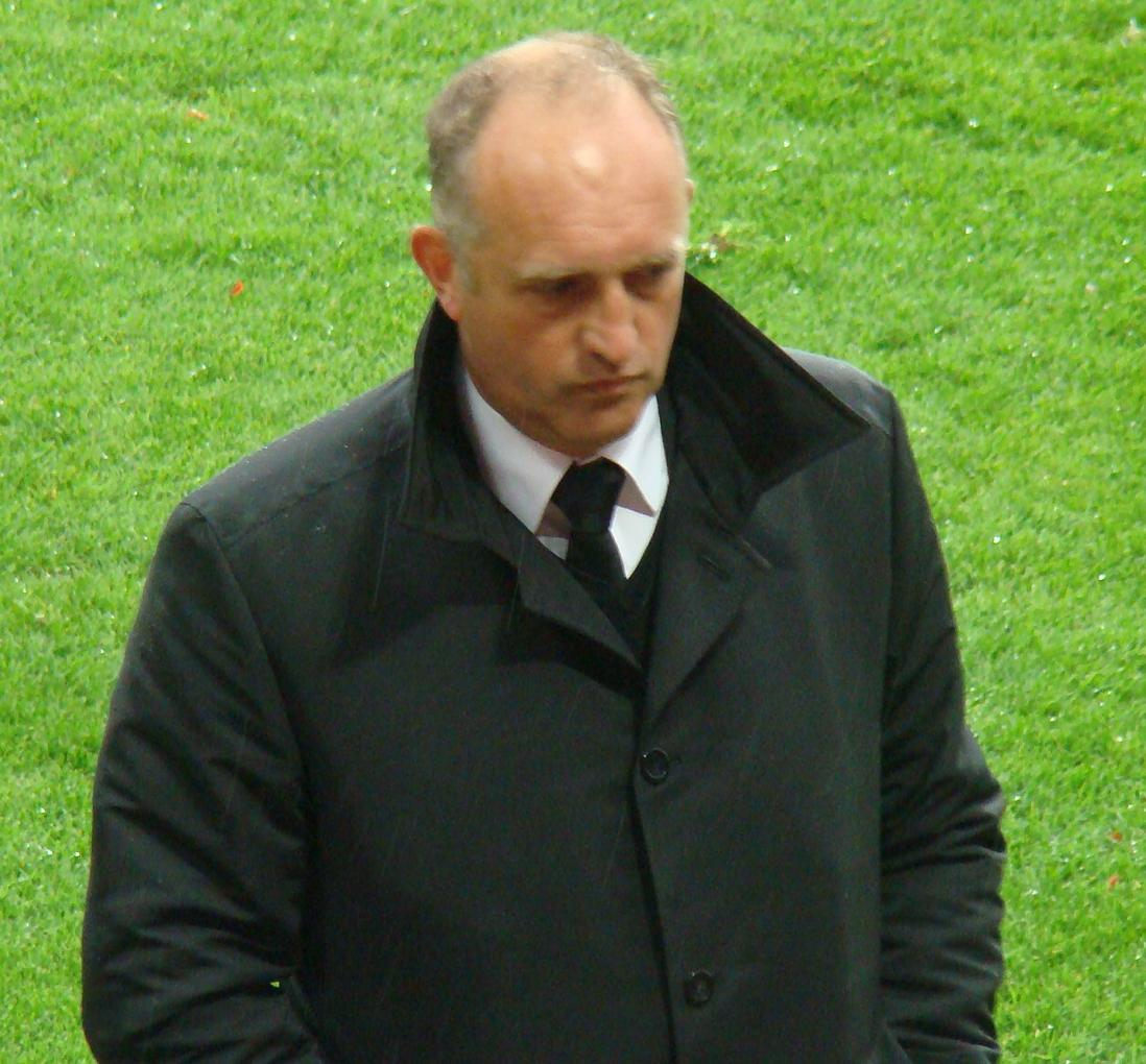 AZ and Dutch national women's squad coach Ed Engelkes